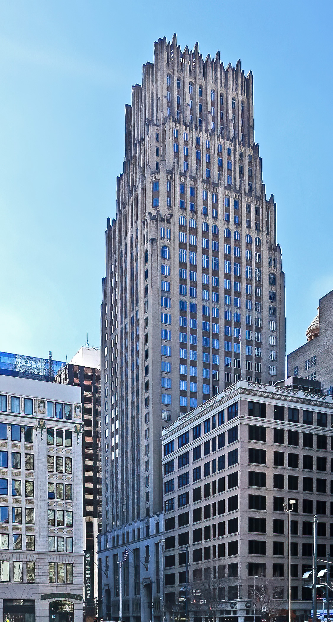 Prominent real estate developer, publisher, statesman and banker Jesse H. Jones opened the Gulf Building in 1929 with Gulf Oil, National Bank of Commerce, and Sakowitz Brothers as primary tenants. Alfred C. Finn designed the 430foot high Art Deco edifice with a six-story base topped by a tall tower that diminishes in size as it rises. The 37-floor, steel-frame structure remained Houston’s tallest skyscraper for 34 years. In 1986, the building, then owned by a successor bank, underwent a $50 million restoration. It was renamed the JPMorgan Chase Building in 2000 and continues to be a monument to the city’s growth, modernity and financial prosperity. This building is in the National Register of Historic Places